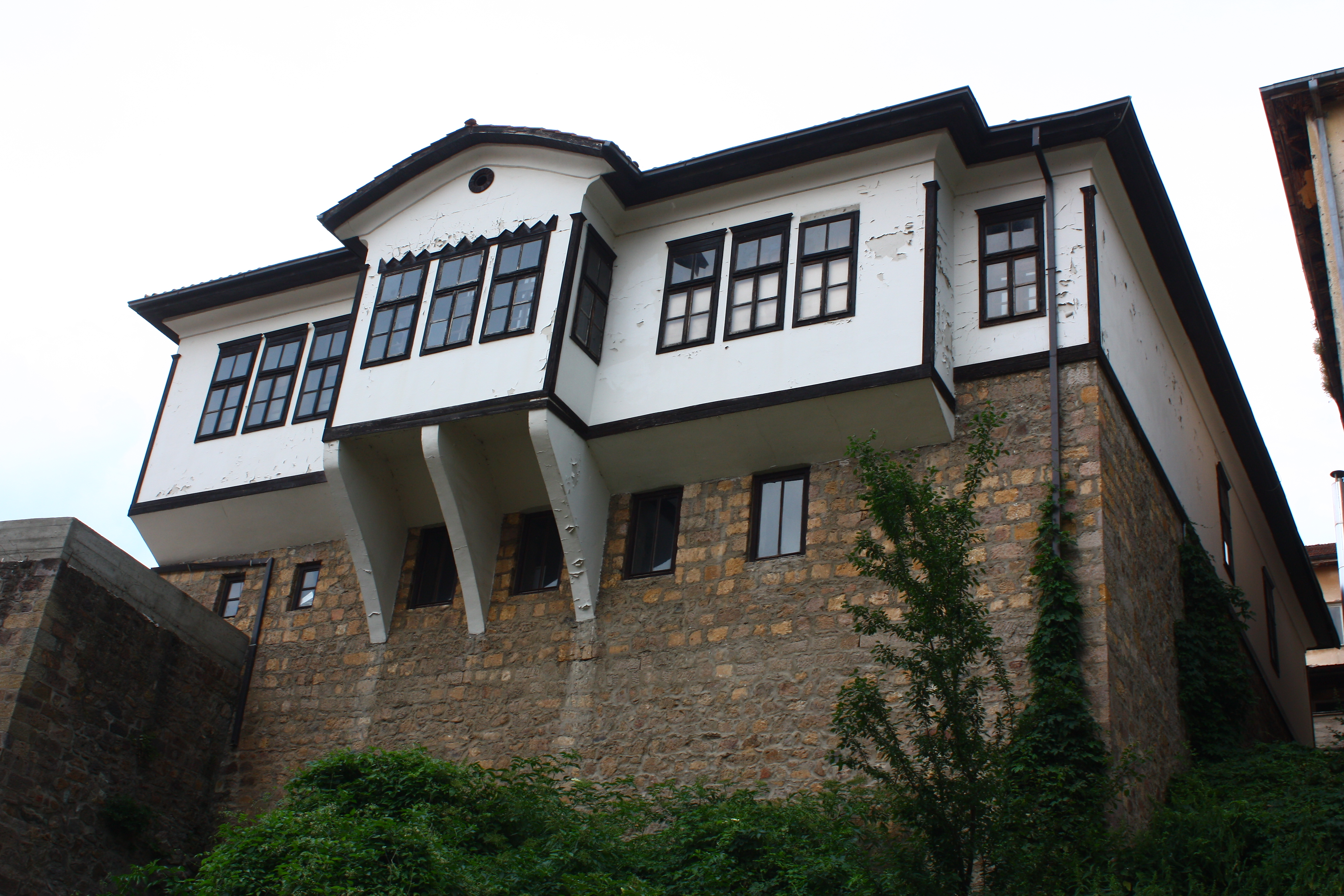 IKratovo, Macedonia